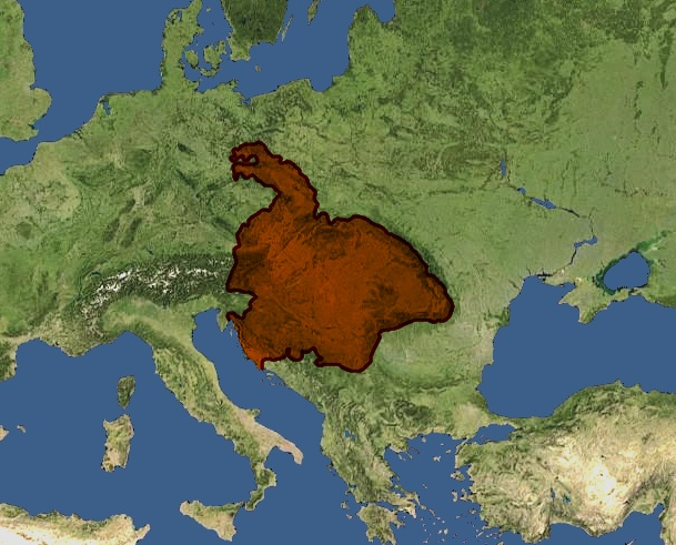 Kingdom of Hungary in 1480, after the conquests of Matthias Corvinus